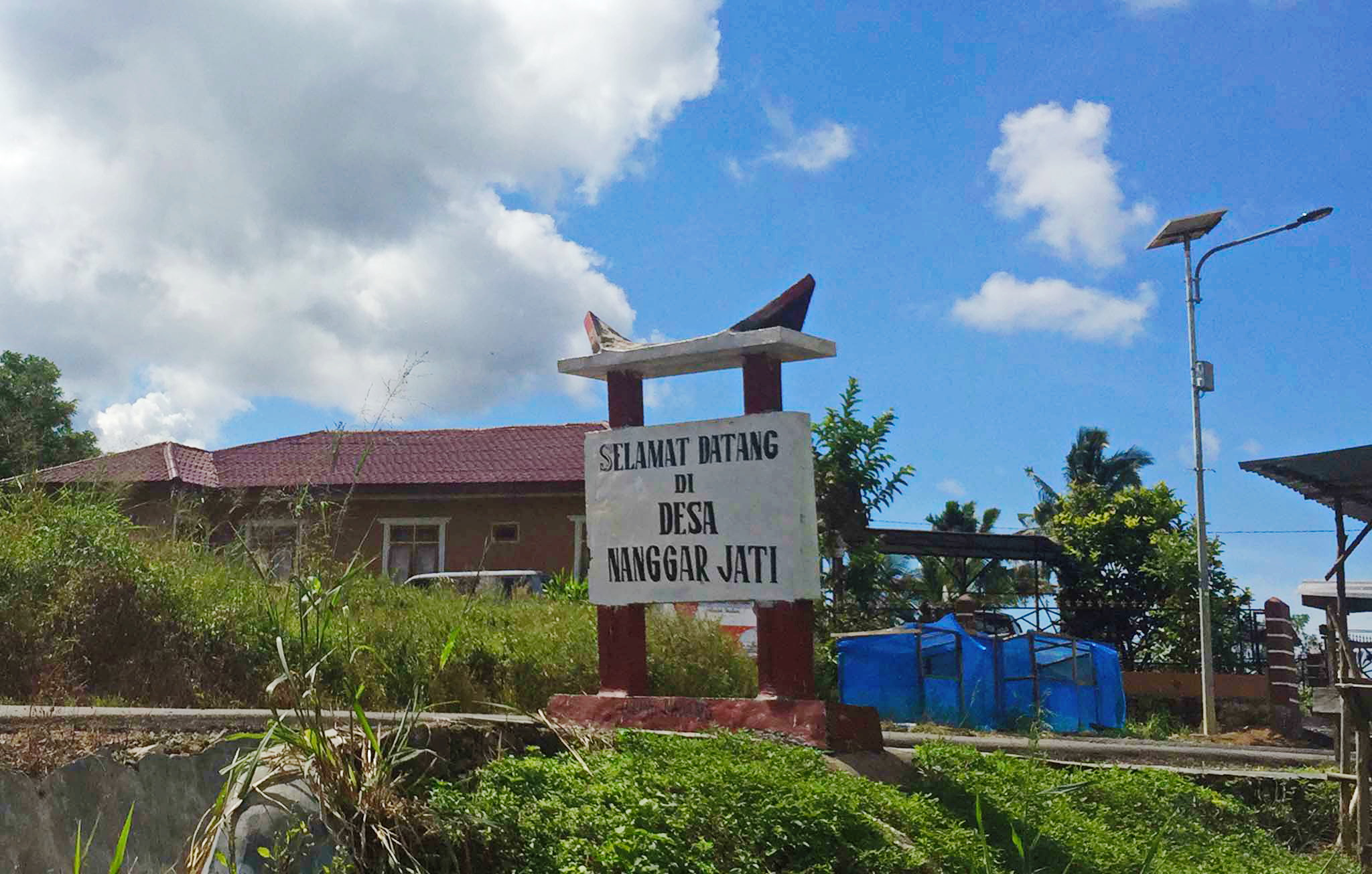 welcome gate to Nanggar Jati, Arse, South Tapanuli